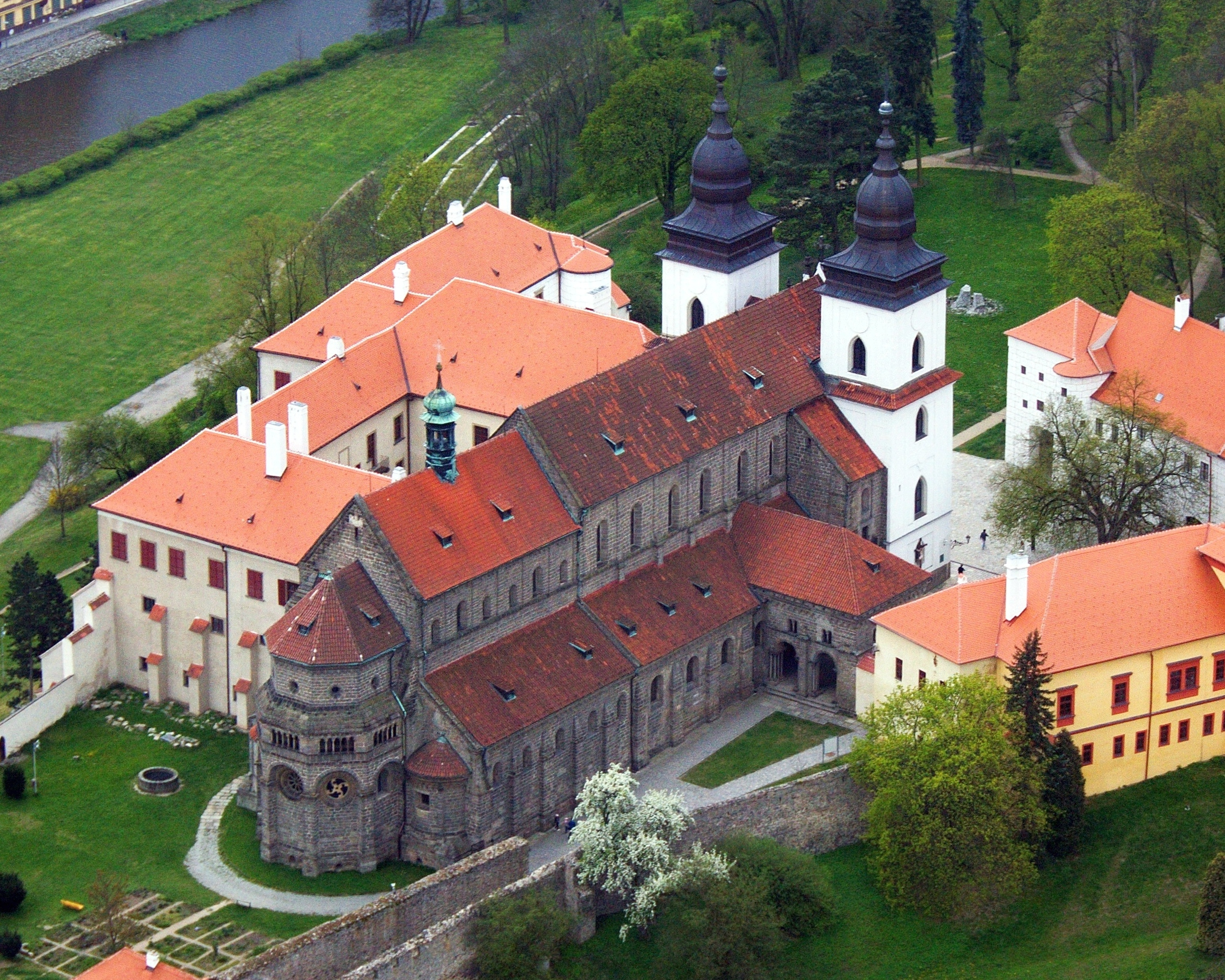 Aerial view of castle in Třebíč